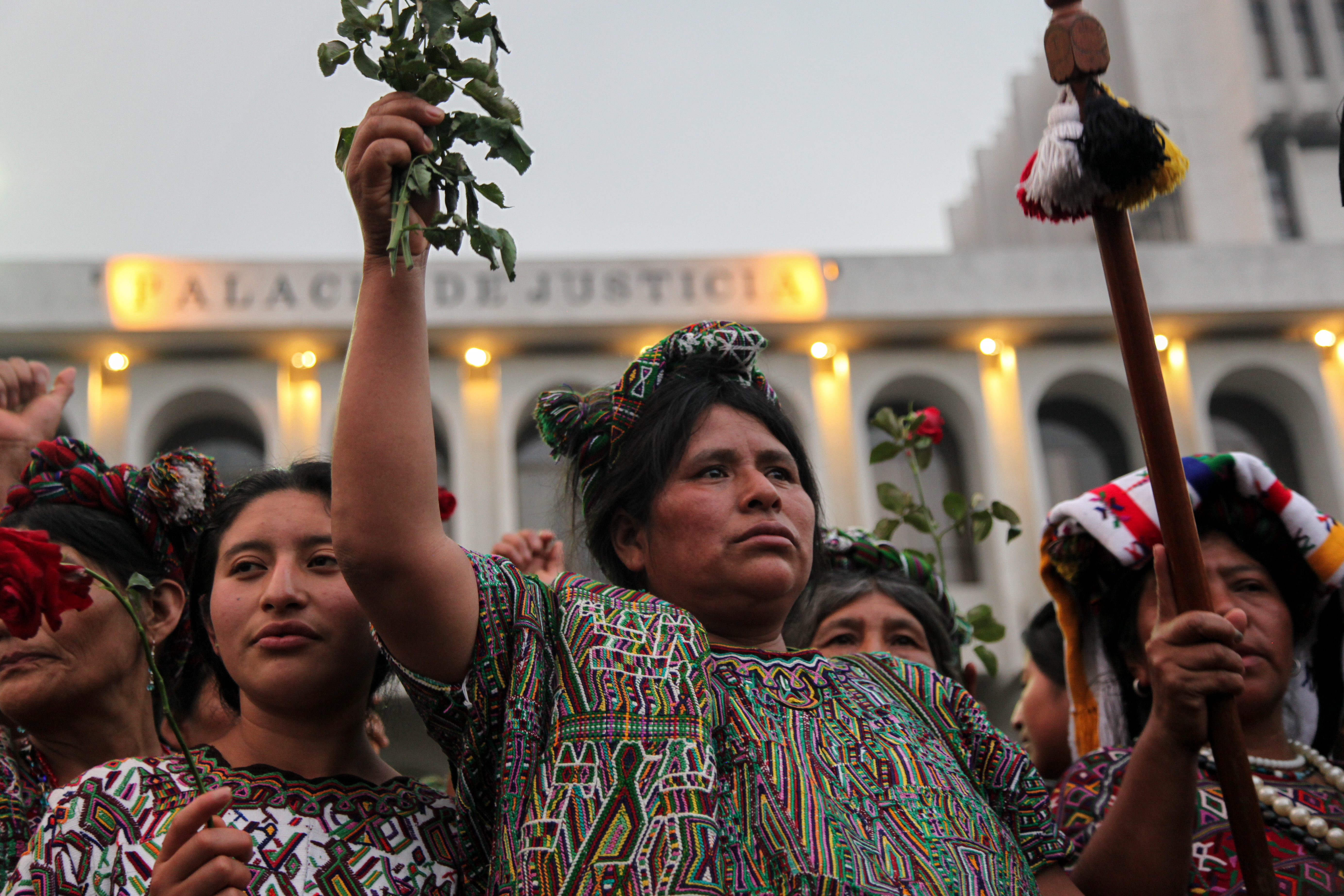 Maria Soto and other Ixil women celebrate after former Guatemalan dictator Rios Montt was found guilty of genocide against the indigenous Ixil people in the 1980s. Trócaire's partners had fought for almost 30 years for justice for the Ixil people. (Photo: Elena Hermosa).